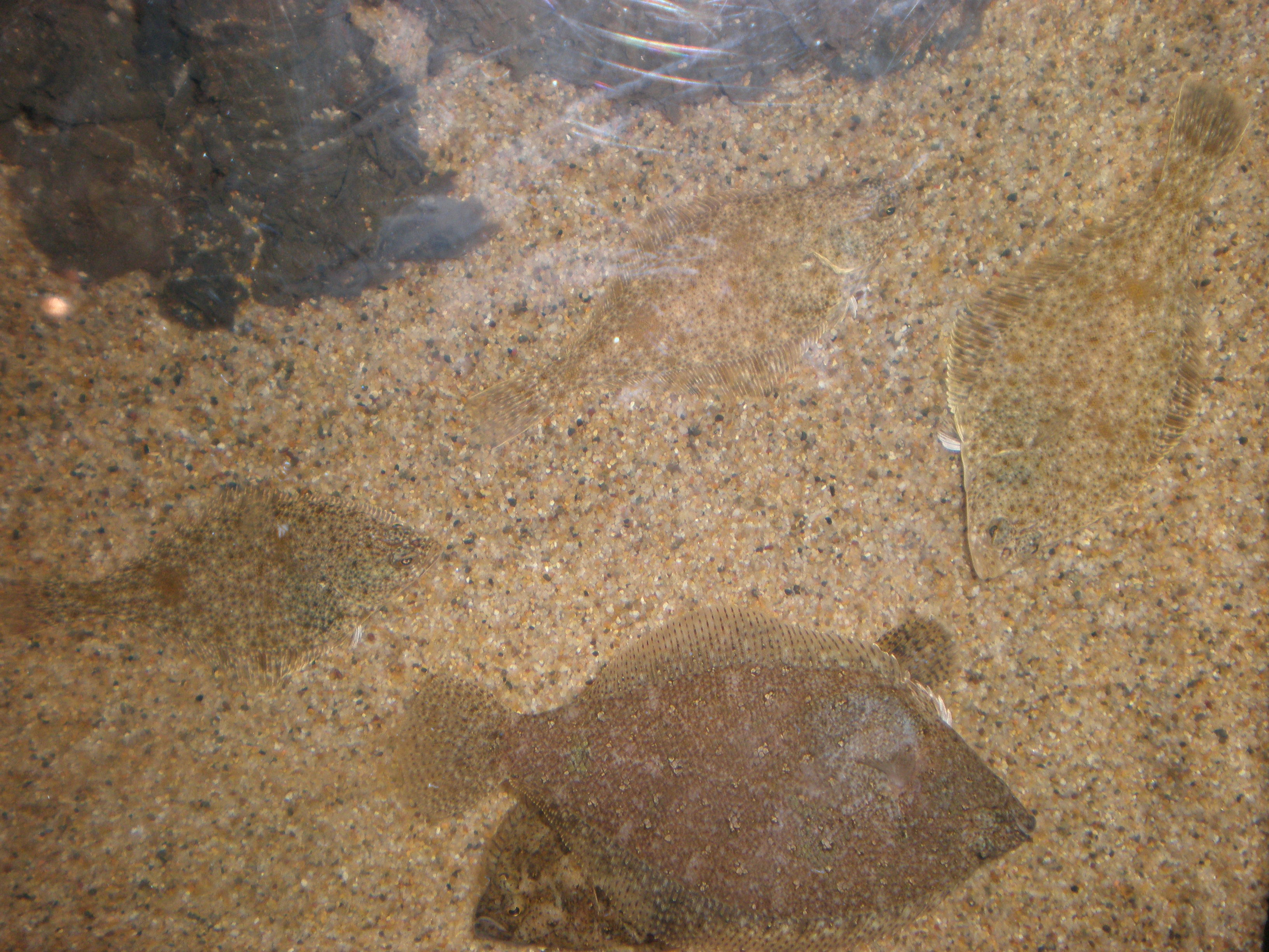 Speckled Sanddabs (Citharichthys stigmaeus) at the Steinhart Aquarium of the California Academy of Sciences in San Francisco.